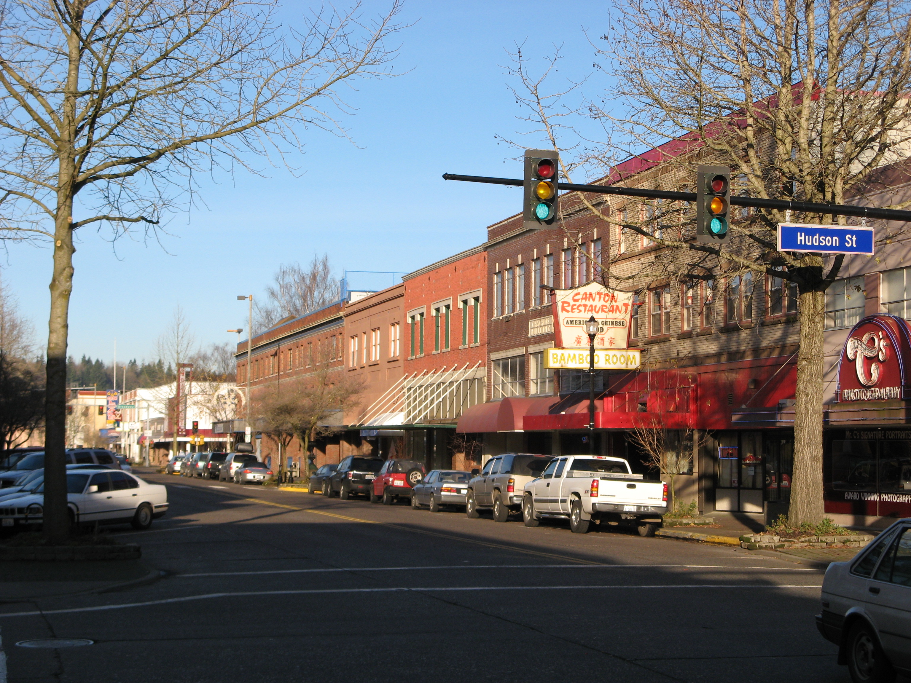 Downtown Longview WA, on the corner of Commerce Avenue and Hudson Street.